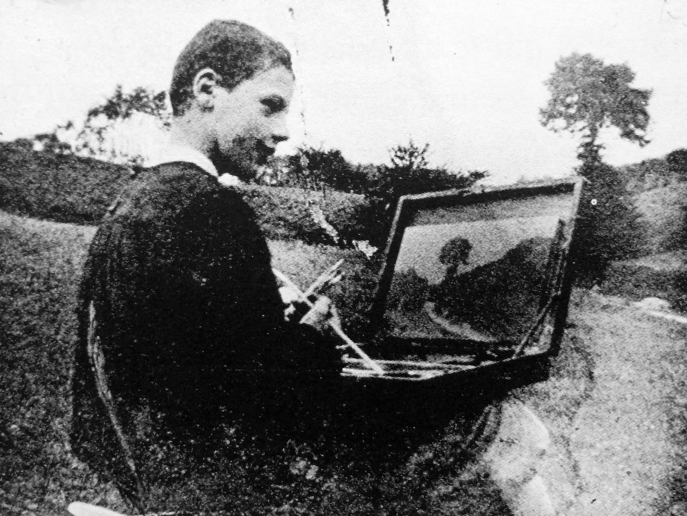 Robert Antoine Pinchon, 1898, en plein air, painting Le chemin, oil on canvas, 22 x 32 cm (See Other versions below)